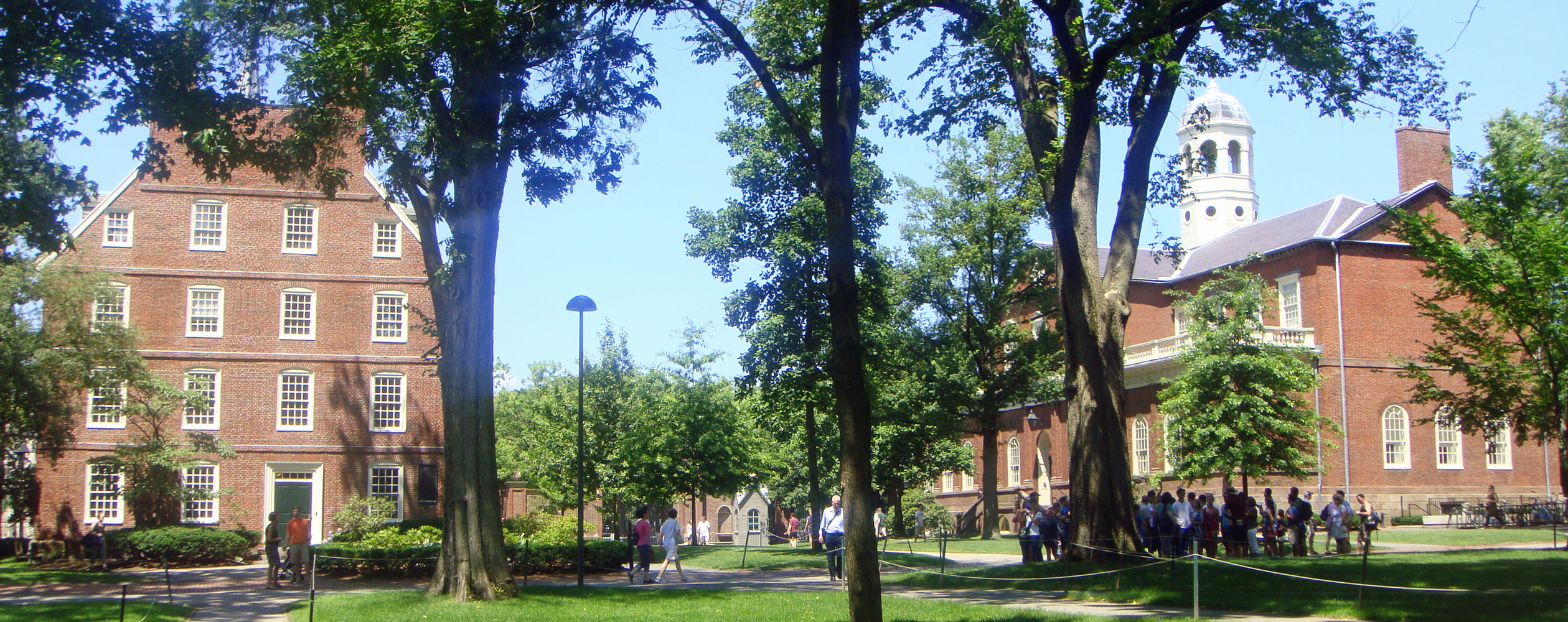 Massachusetts Hall (right), built in 1720, is the oldest building at the Harvard University campus. Harvard Hall (left), rebuilt between 1764 and 1766, is the fourth oldest standing building. See details here